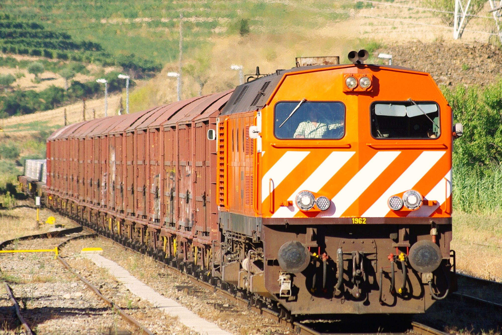 Locomotive 1962 (class 1960) of Comboios de Portugal